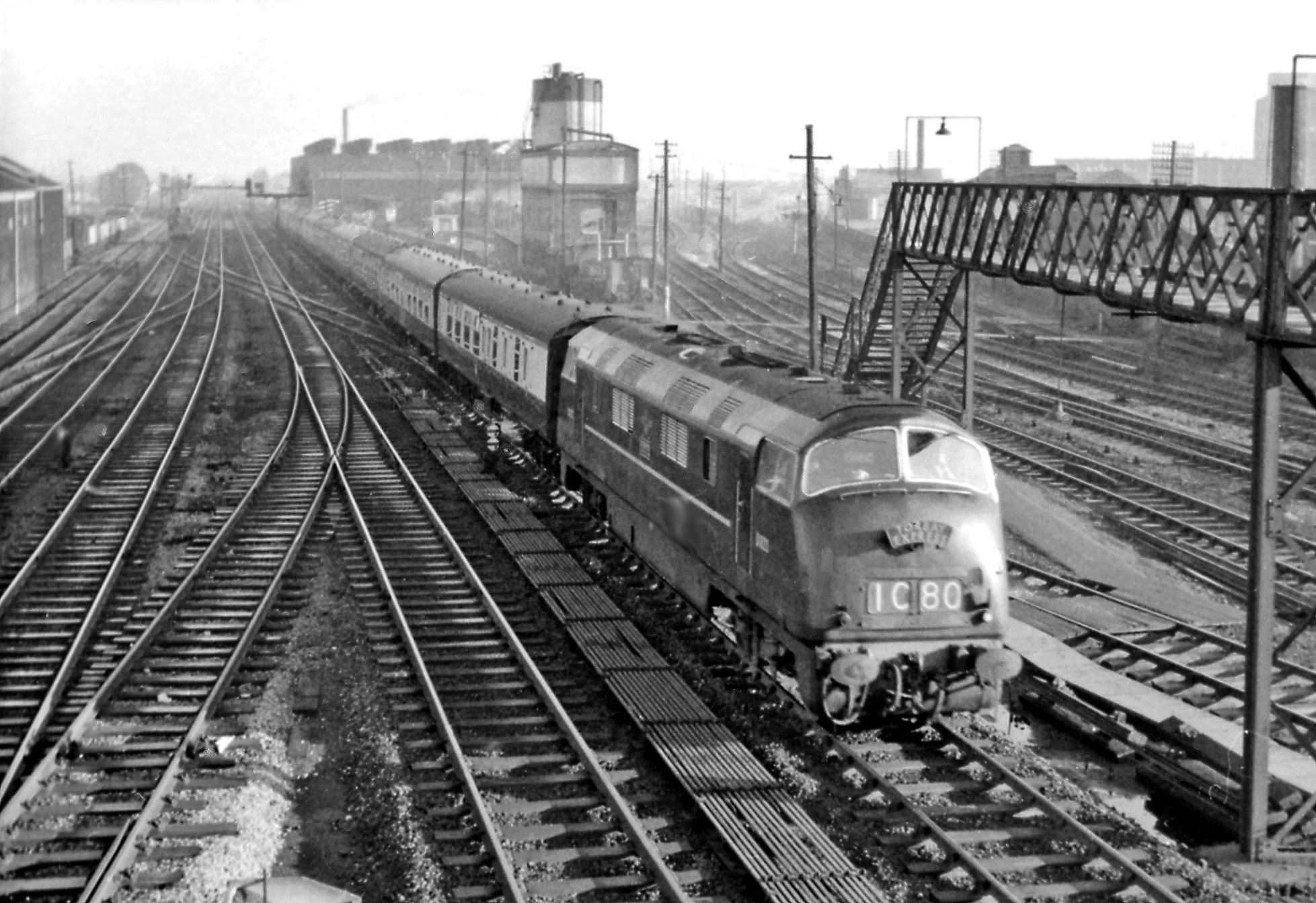 Diesel-hauled Down 'Torbay Express' approaches Southall Station. View wastward, towards London Paddington; ex-GWR Paddington - Reading etc. main line. By 1960 main-line Diesel-Hydraulics were handling many of the principal Western Region expresses. Here No. D823 'Hermes', a Swindon-built 2,200hp Type 4 B-B (introduced 8/58), is heading the 12.30 West of England express from Paddington, having just passed Southall Locomotive Depot, seen in the distance with the branch from Brentford coming up on the right.